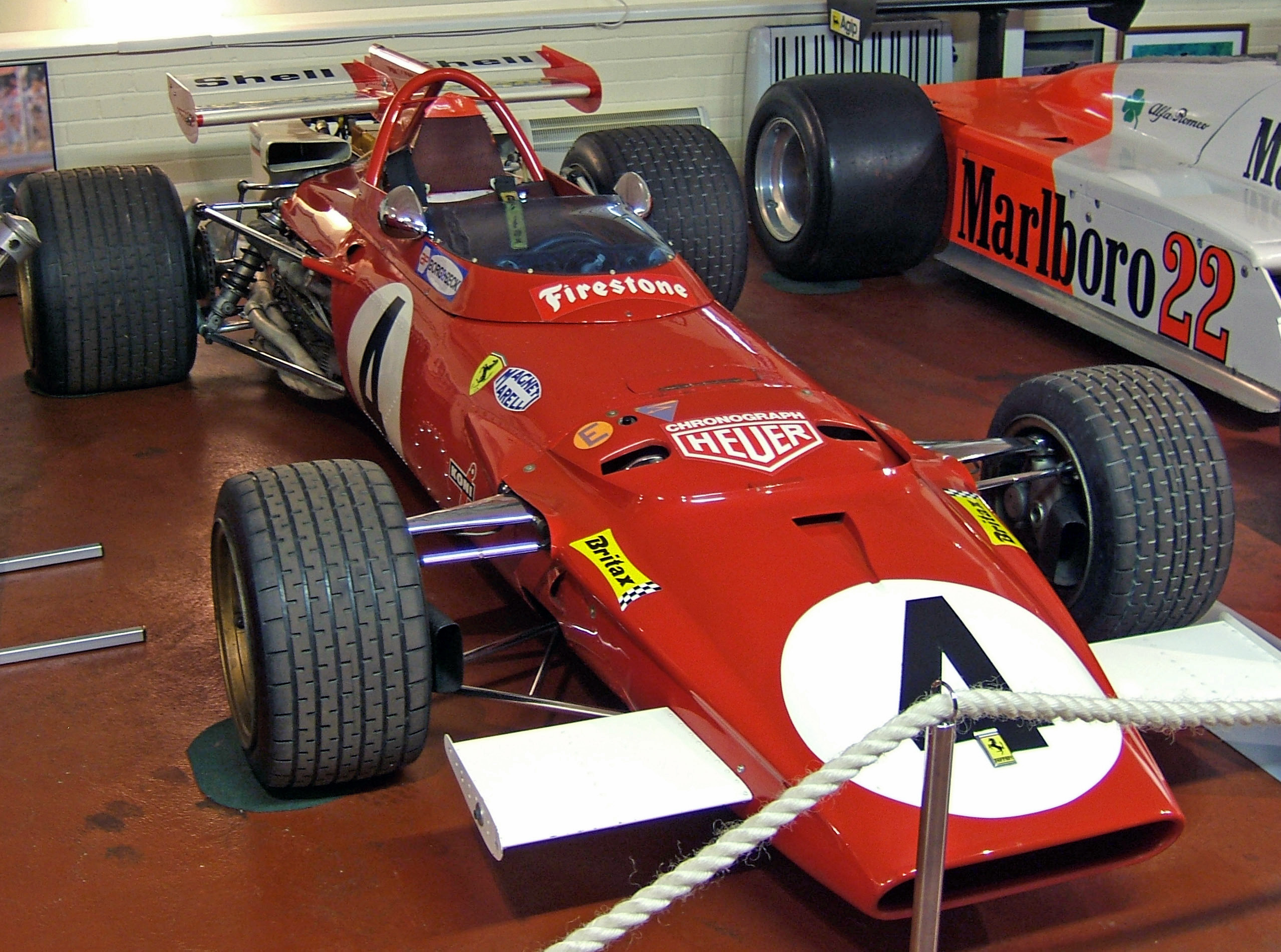 A Ferrari 312B Formula One car (1970). In the Donington Grand Prix Collection museum, Leics., UK.